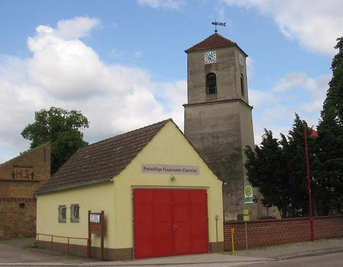 Church and fire station in Cammer. The village Cammer is a part of the municipality Planebruch in the district Potsdam Mittelmark, state Brandenburg, Germany. The village is situated on the northwest border of the Belziger Landschaftswiesen (territory Grassland)/„Baruther Urstromtal“ (glacial valley)/Naturpark Hoher Fläming (natural reserve) subplateau Zauche.